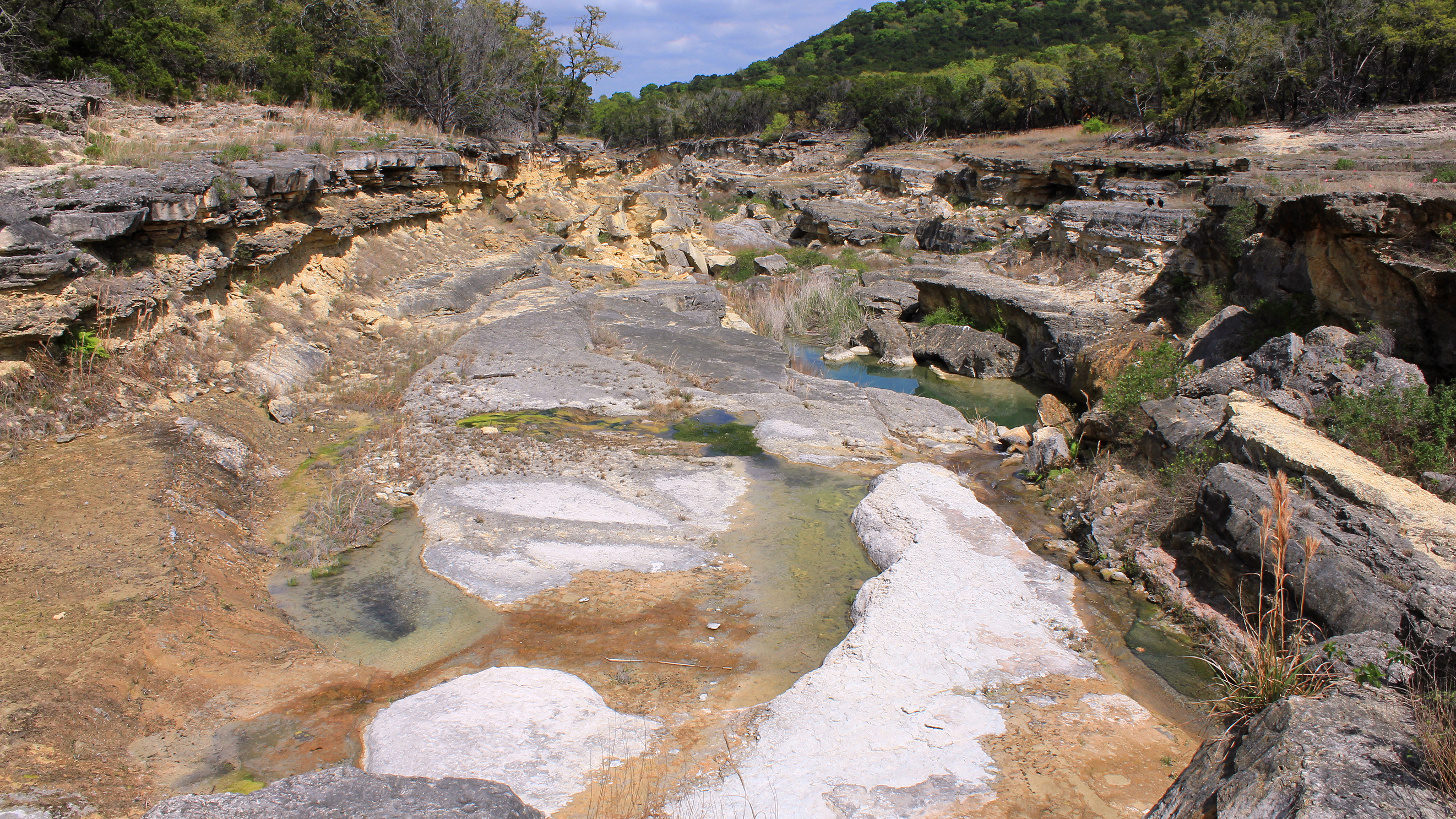 Canyon Lake Gorge near Canyon Lake, Texas, United States